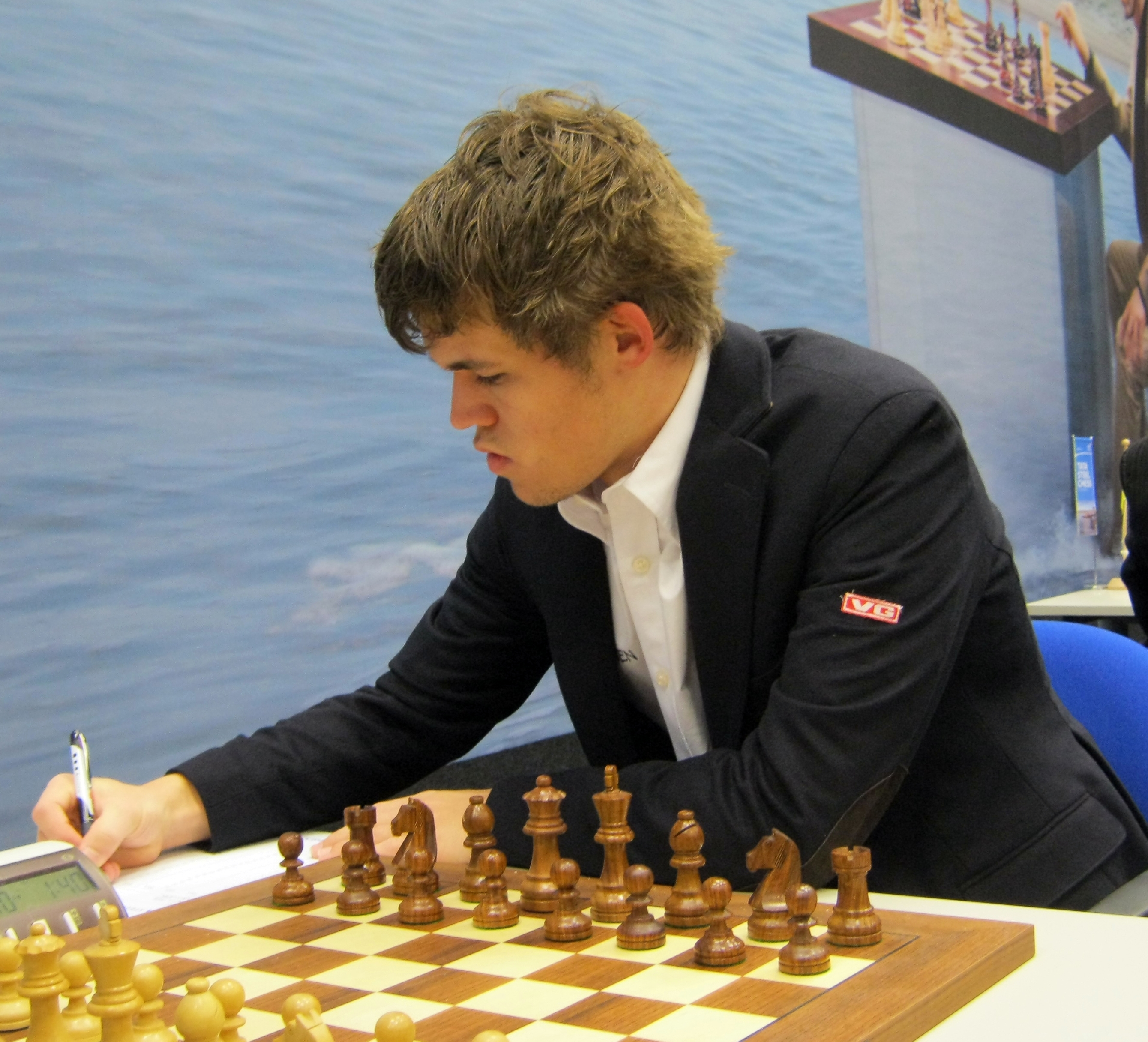 Magnus Carlsen, chess grandmaster from Norway